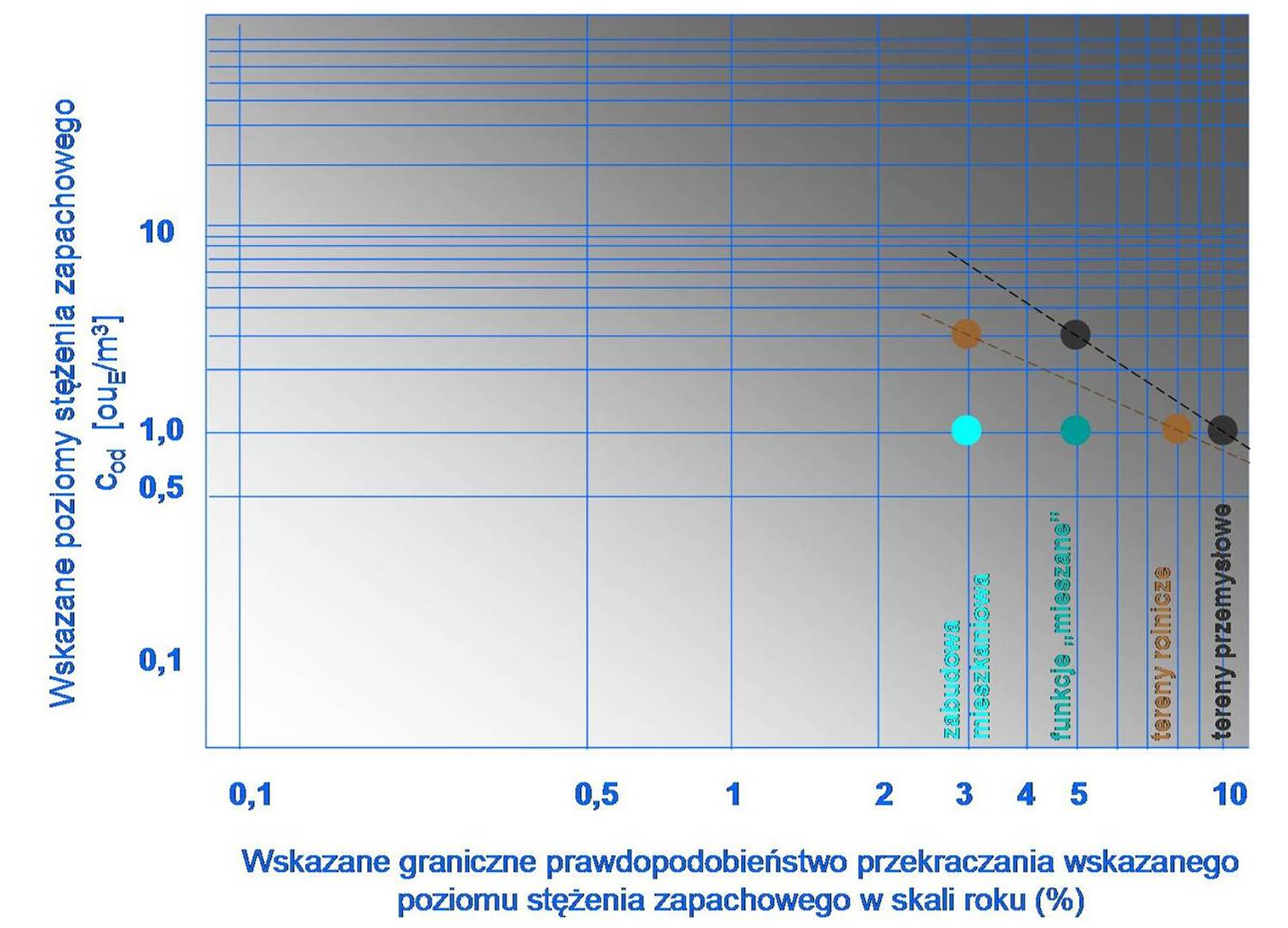 Odour Air Standards (D), fig. 4